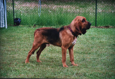 Bloodhound. Photographer: Claudia Krebs